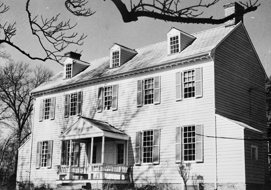 Ash Grove, 8900 Ash Grove Lane, Vienna vicinity, Fairfax County, VA